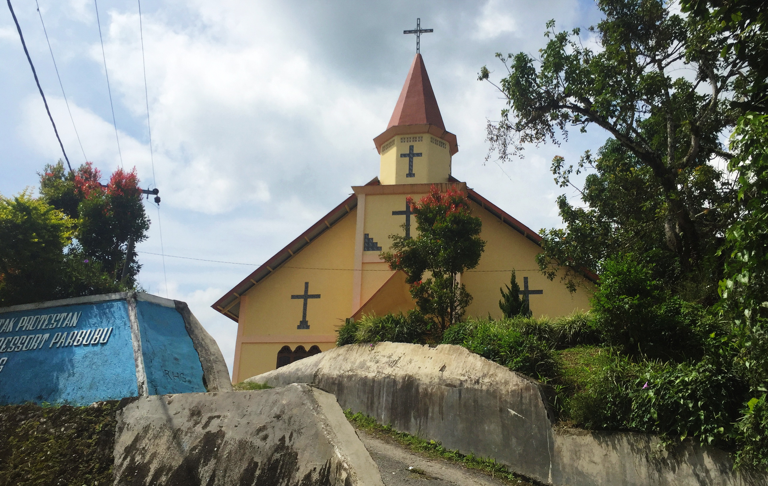 HKBP Parbubu, Church in Parbubu, Tarutung, North Tapanuli